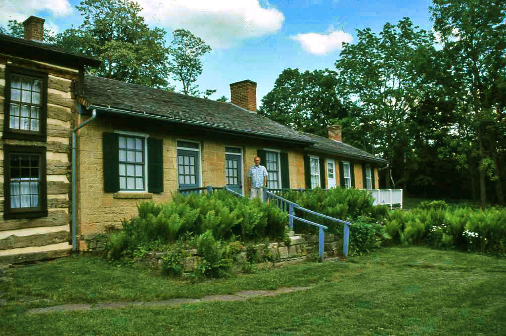 Cabins built by Cornish lead miners at Pendarvis in Mineral Point, Wisconsin. The site was listed on the National Register of Historic PlacesWisconsin Historical Society.